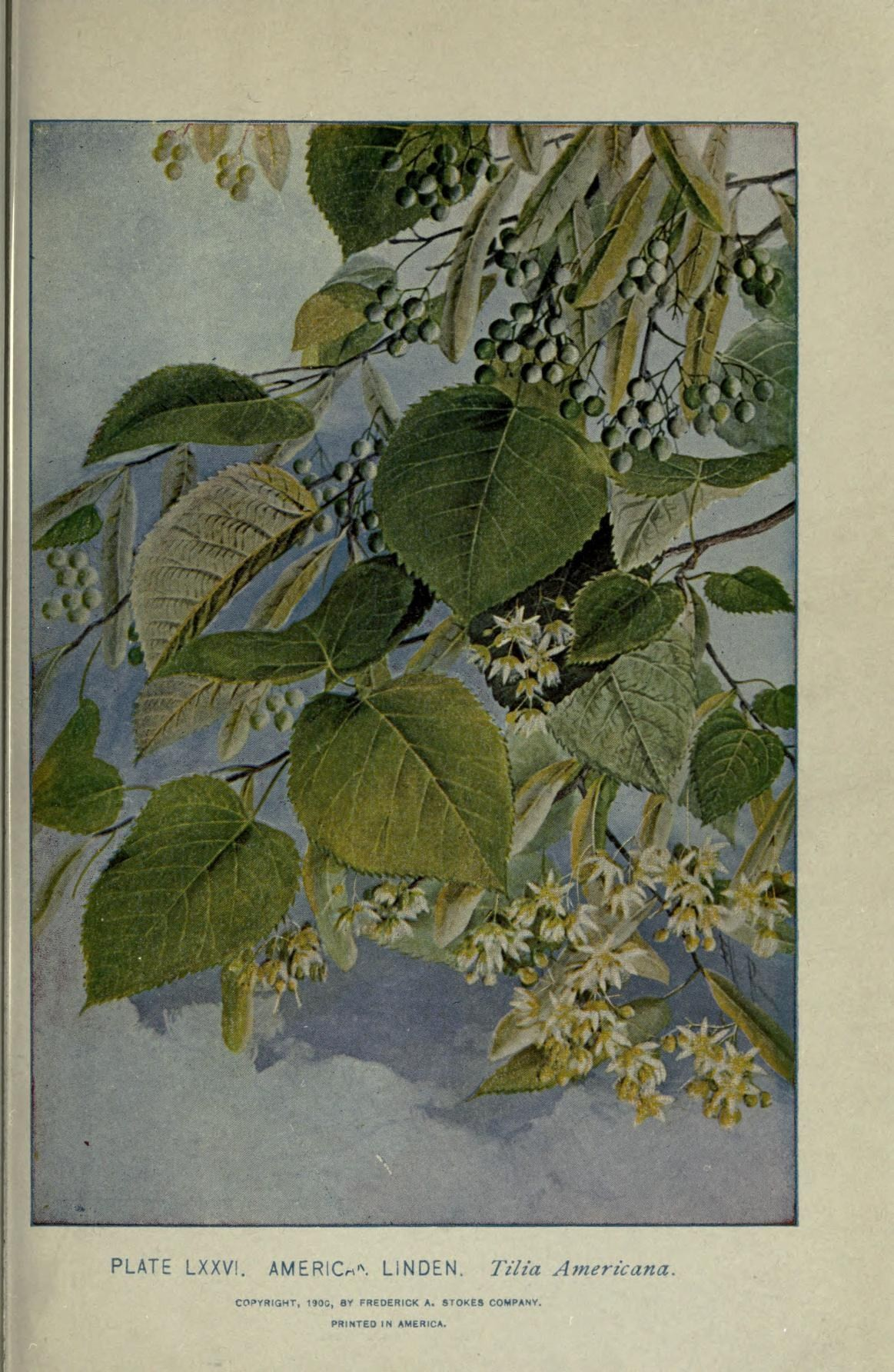 PLATE LXXVI. AMERICA. LINDEN. Tilia Americana. COPYRIGHT, 1900, BY FREDERICK A. STOKES COMPANY. PRINTED IN AMERICA.